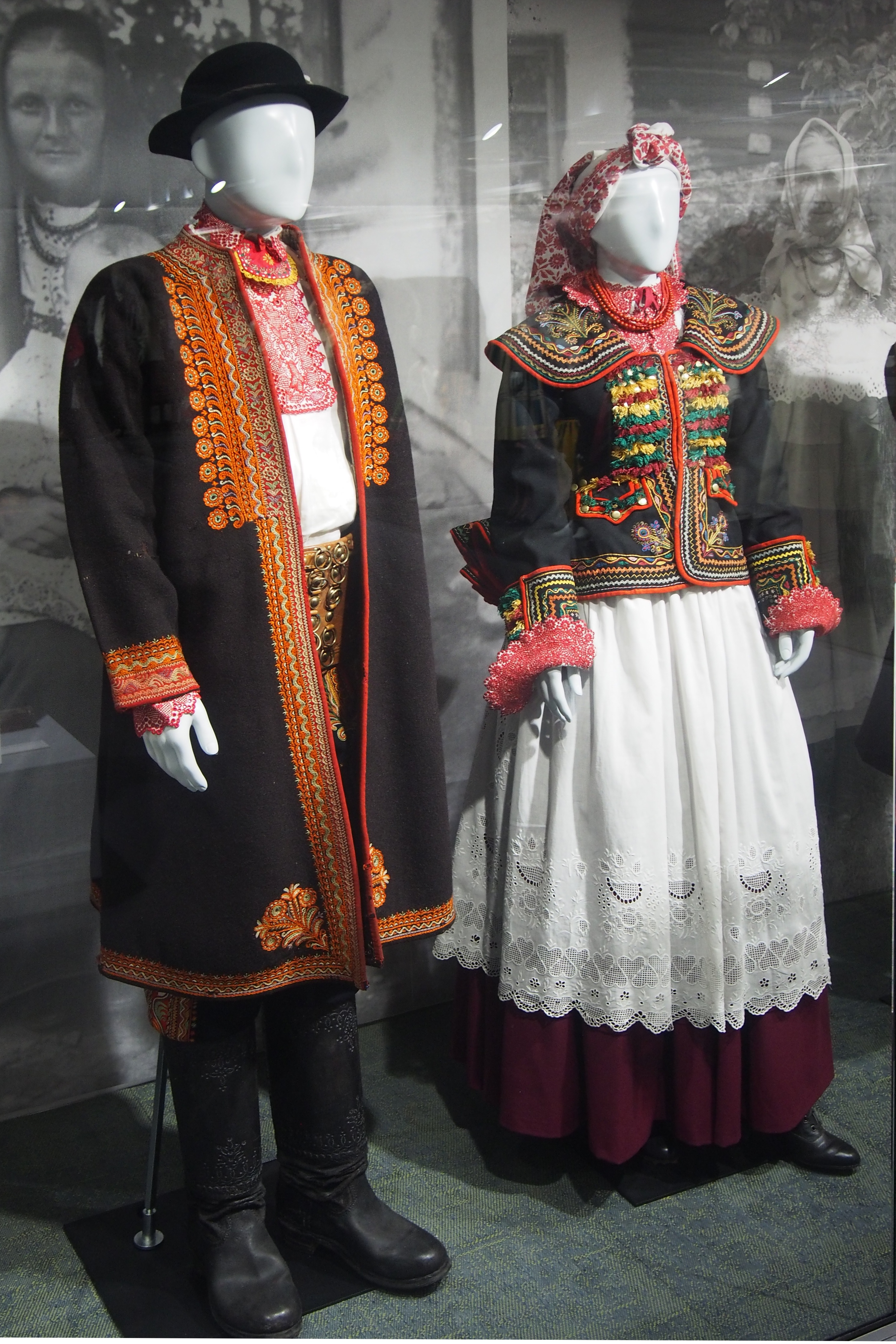 Lachy Sądeckie attires at National Ethnographic Museum in Warsaw (2015-02-28). Men's attire from 1880-1914, women's attire from 1890-1940.